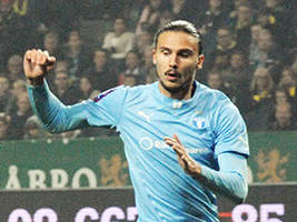 Malmö FF player